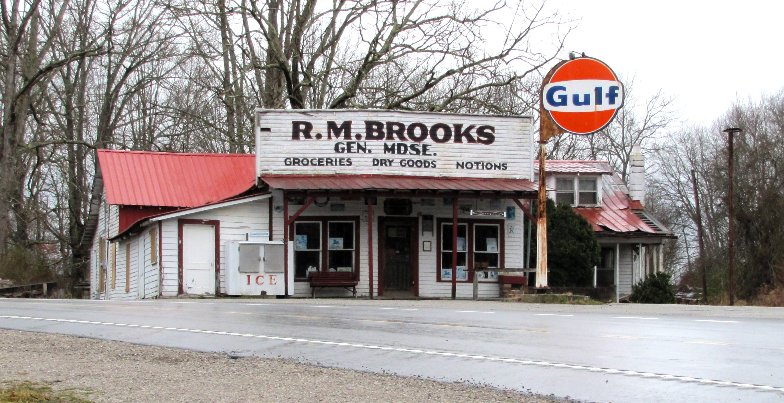 The NRHP-listed R. M. Brooks General Store, located along State Highway 52 between Rugby and Allardt, in Morgan County, Tennessee, USA.